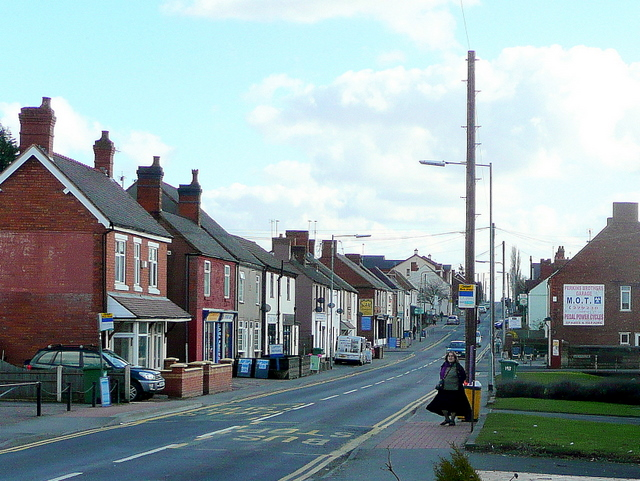 Hednesford Road, Heath Hayes, near to Heath Hayes, Staffordshire, Great Britain. The B4154 passes through this ex-mining community to the east of Cannock.